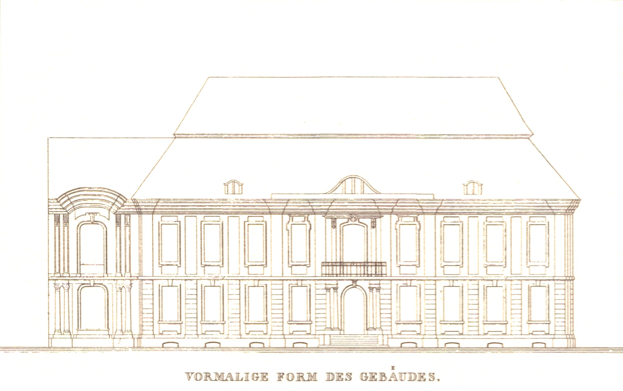 Architectural design for Palais Redern, Berlin - detail former facade